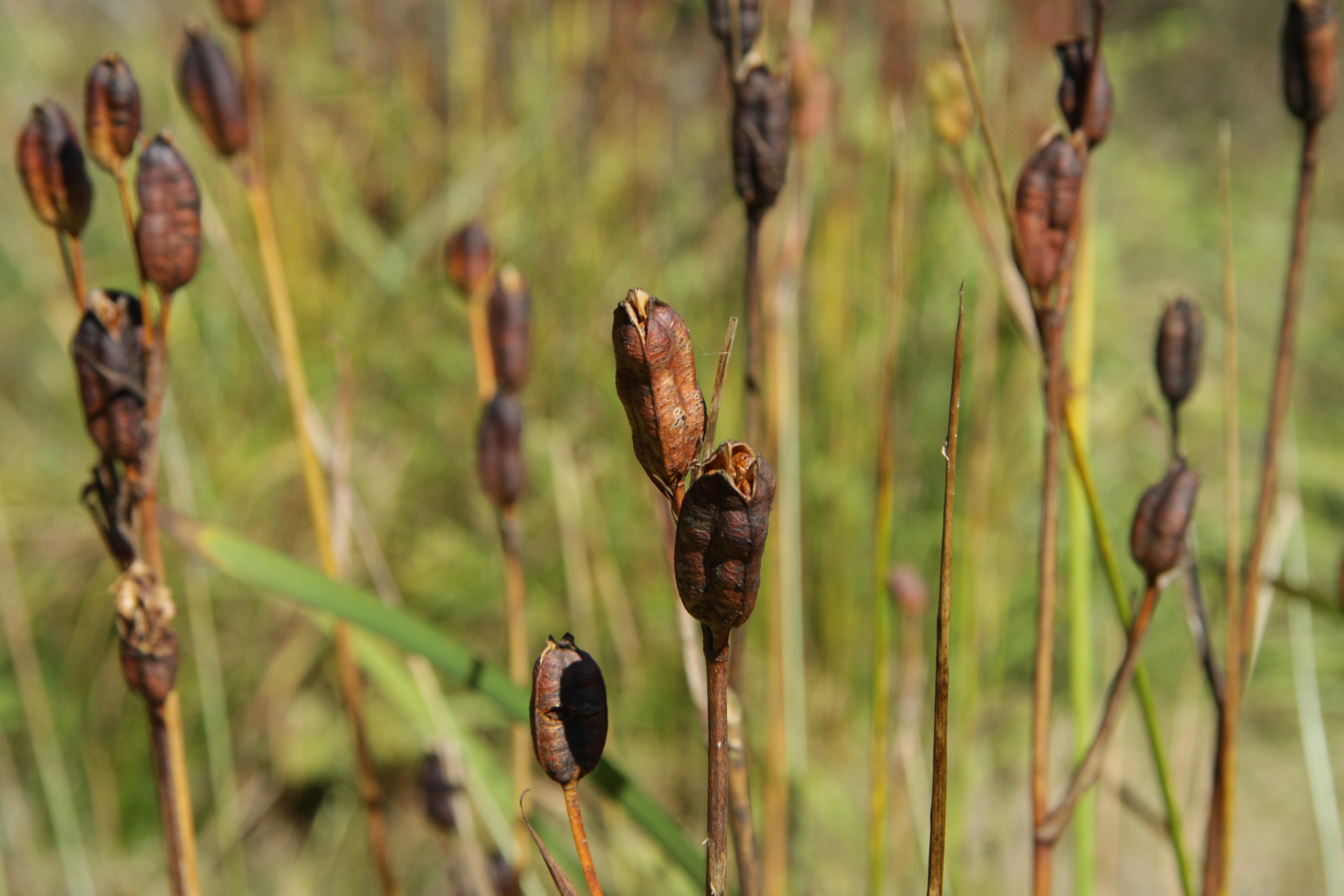 Natural monument Polední in Prachatice District, Czech Republic. Capsules with seeds of Iris sibirica Project: Chráněná území.